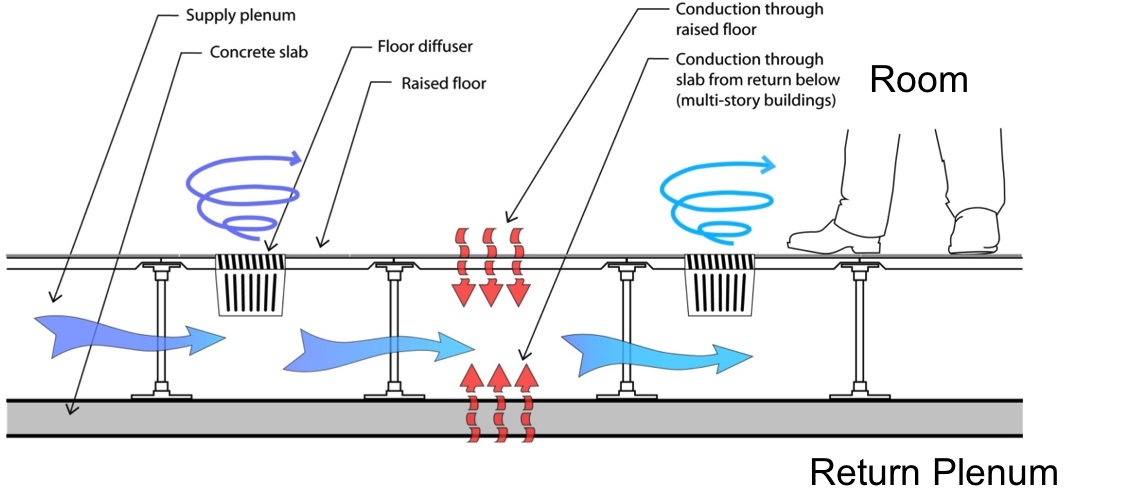 Diagram of Underfloor air distribution source